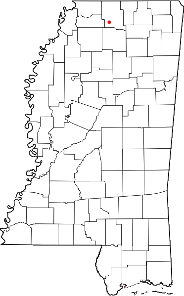 Chulahoma, Mississippi location map; created with the GIMP. Made by User:Acntx. Adapted from Wikipedia's Mississippi County Maps.